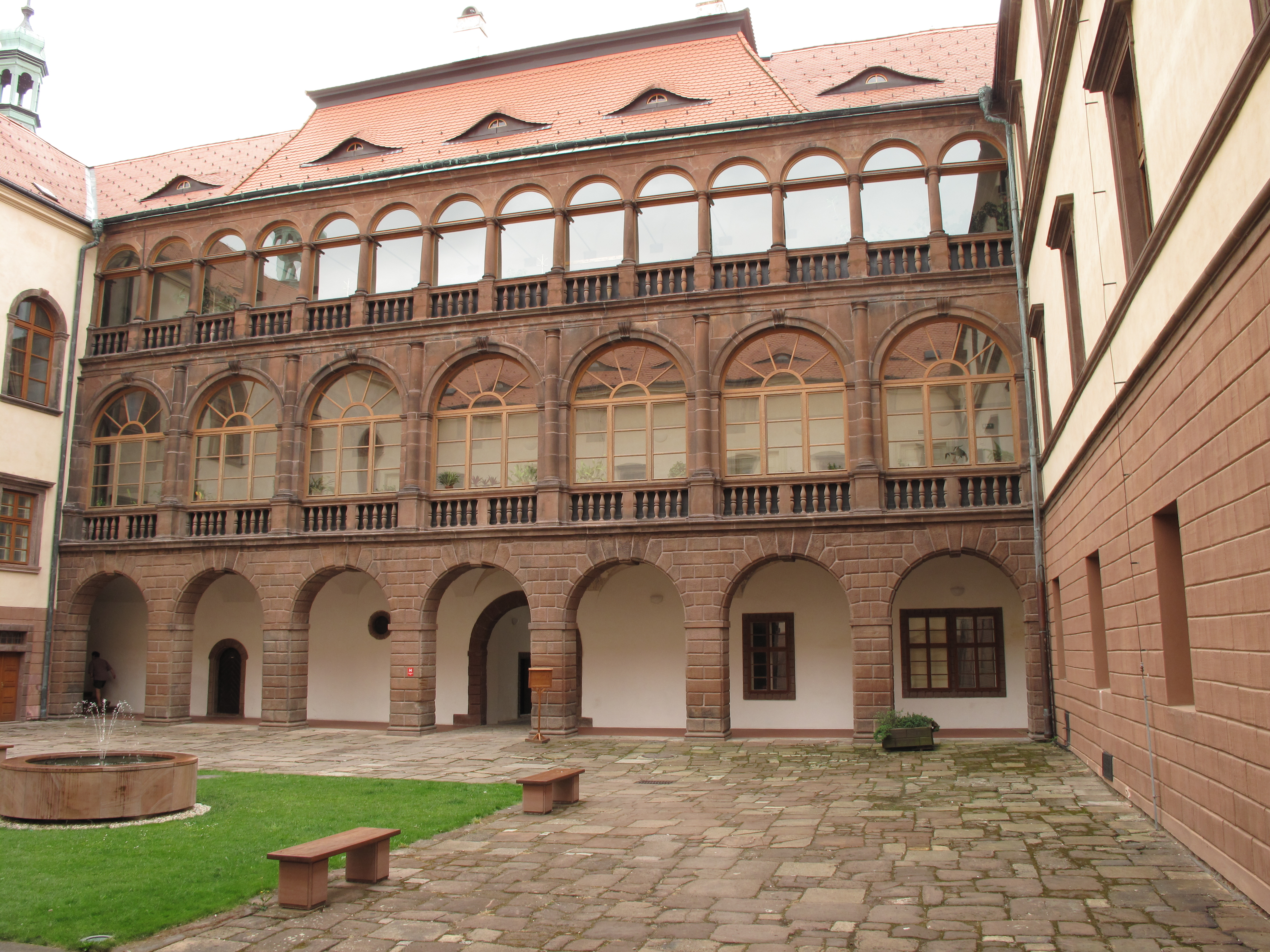 This photograph was taken within the scope of the second year of the 'Czech Municipalities Photographs' grant.